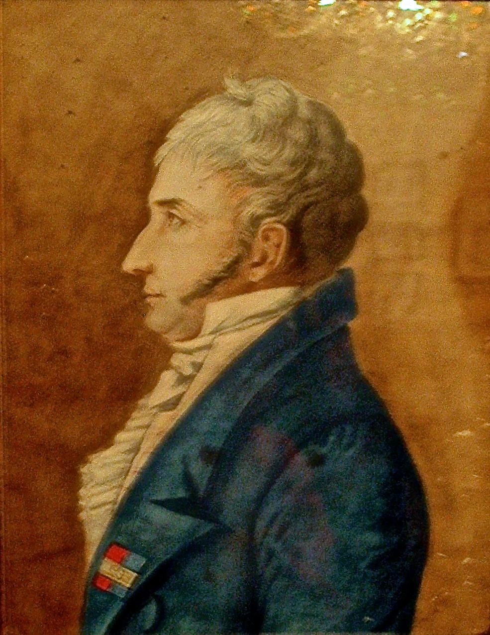 Painting in possession of family